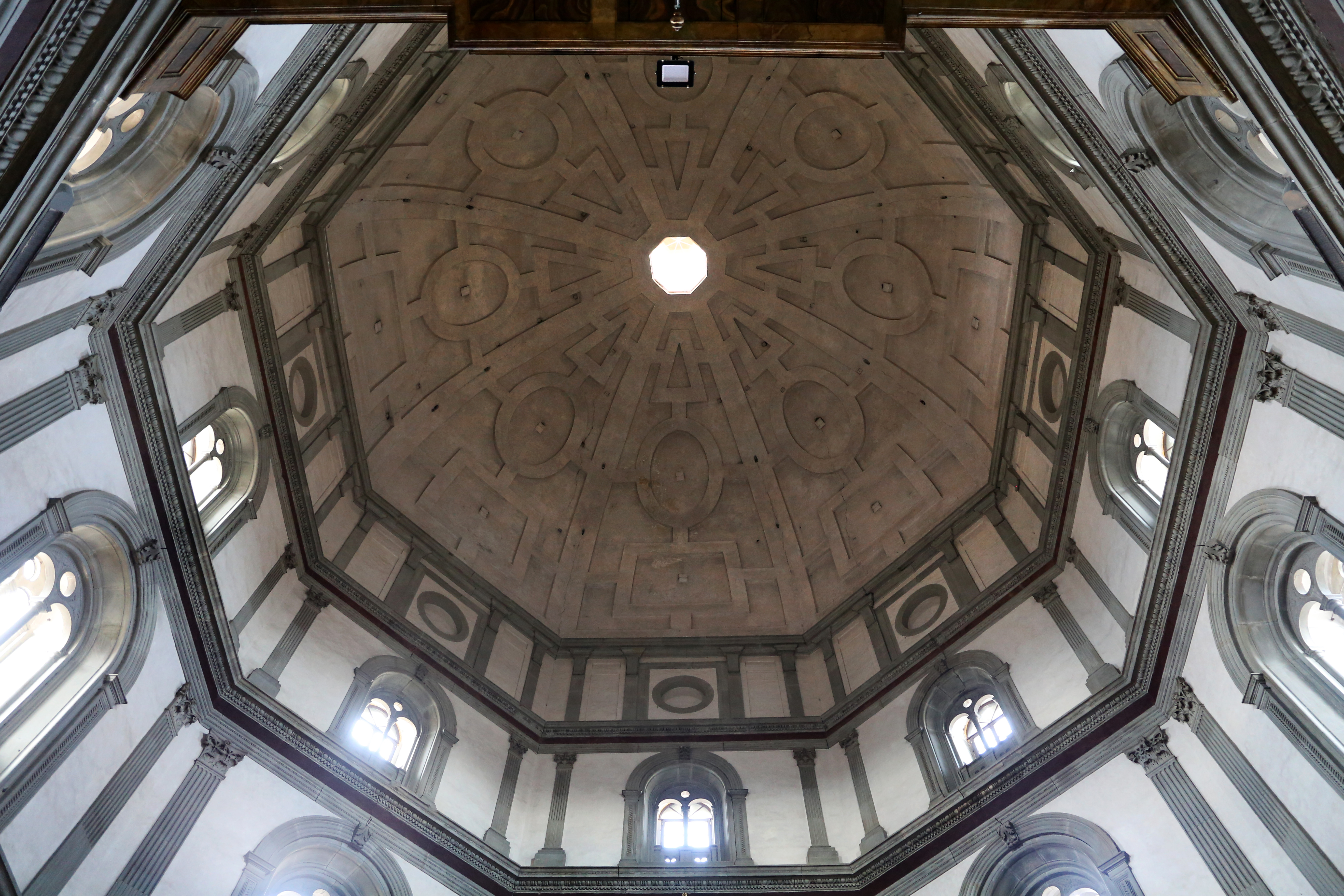 Madonna dell'Umiltà (Pistoia)